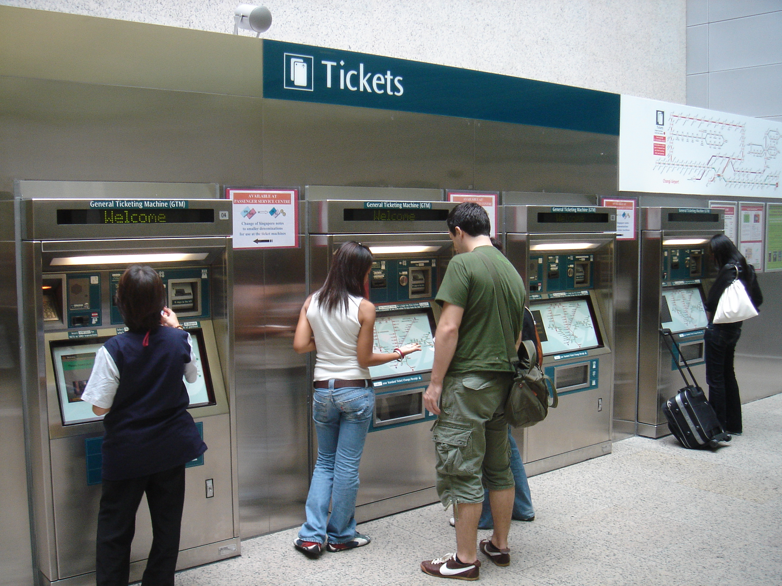 General Ticketing Machines (GTM) at Changi Airport MRT Station.